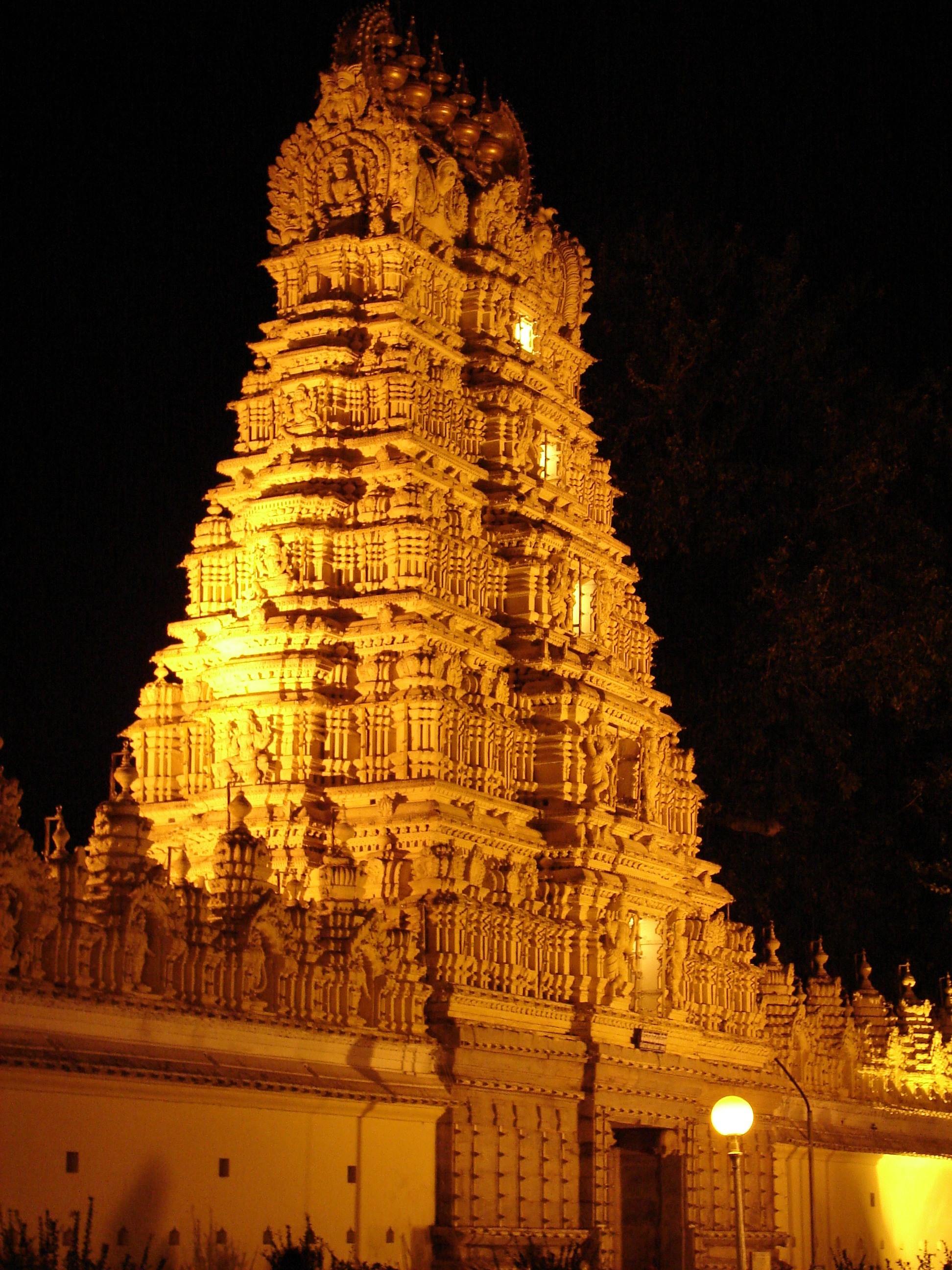 The Shweta Varahaswamy temple was built by King Chikkadevaraja Wodeyar (1674-1704 A.D.) and exists inside the Mysore Palace grounds in Mysore, Karnataka, India.